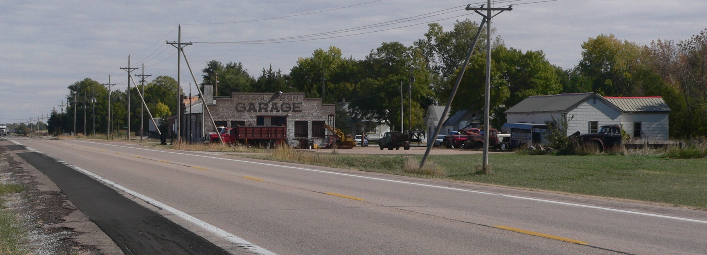 Rogers, Nebraska; camera is facing southeast from U.S. Highway 30.